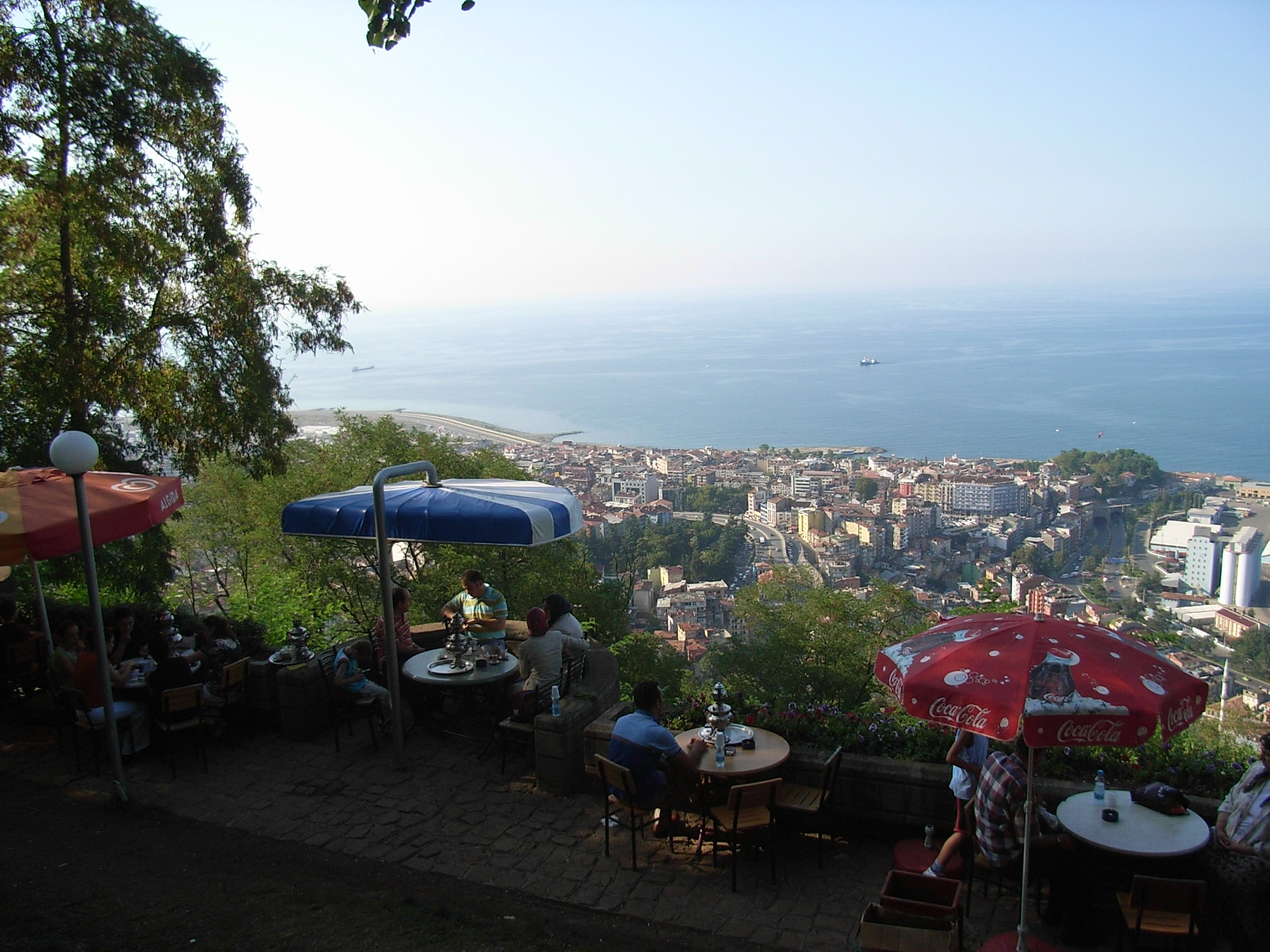 Trabzondan baska bir manzara, ANother view form Trabzon